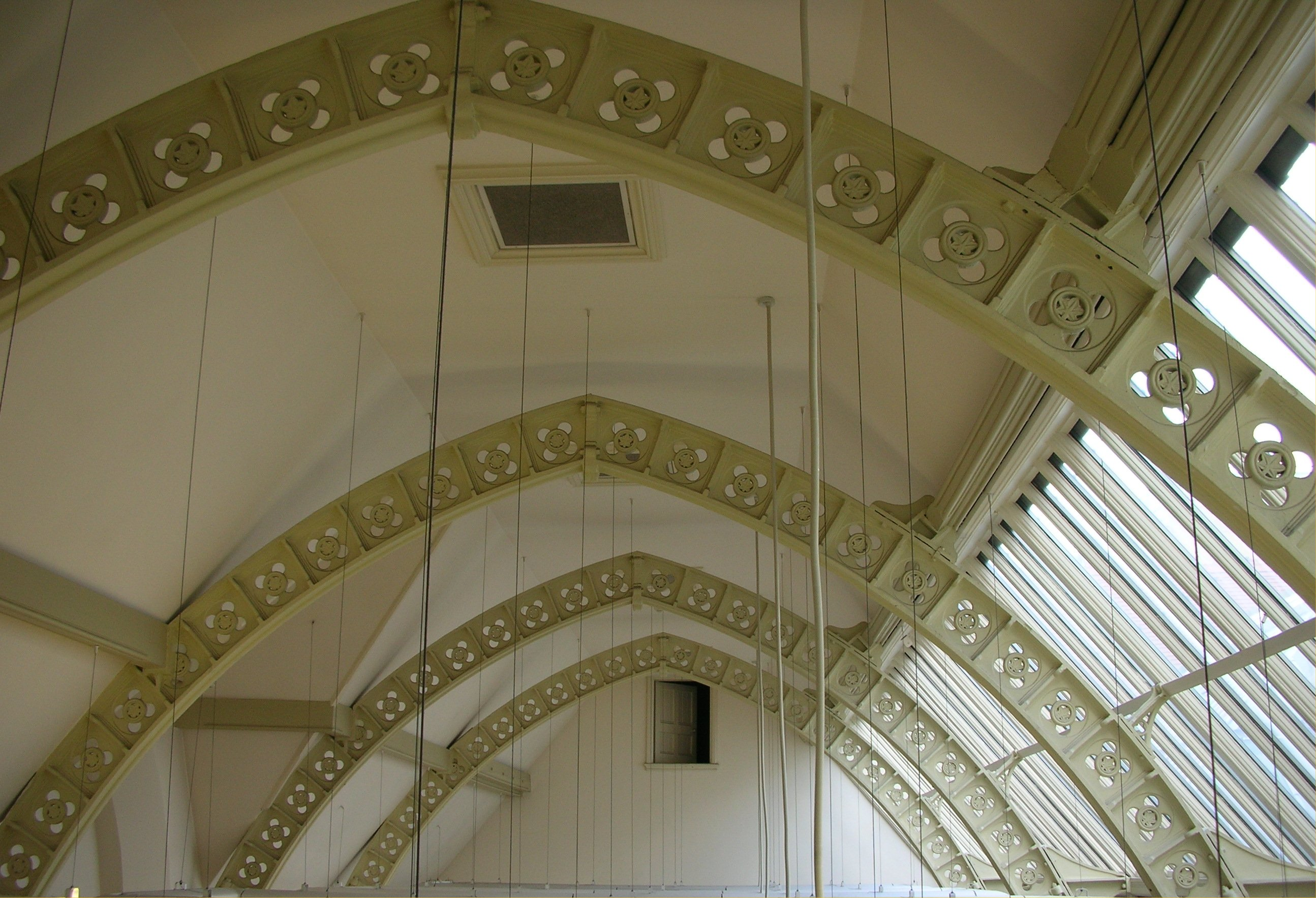 Typical Martin & Chamberlain exposed iron supports for the steep roof of the Birmingham School of Art, England (1893-95). It has several such galleries. Credits Photographed by me on 25 June 2006. Oosoom